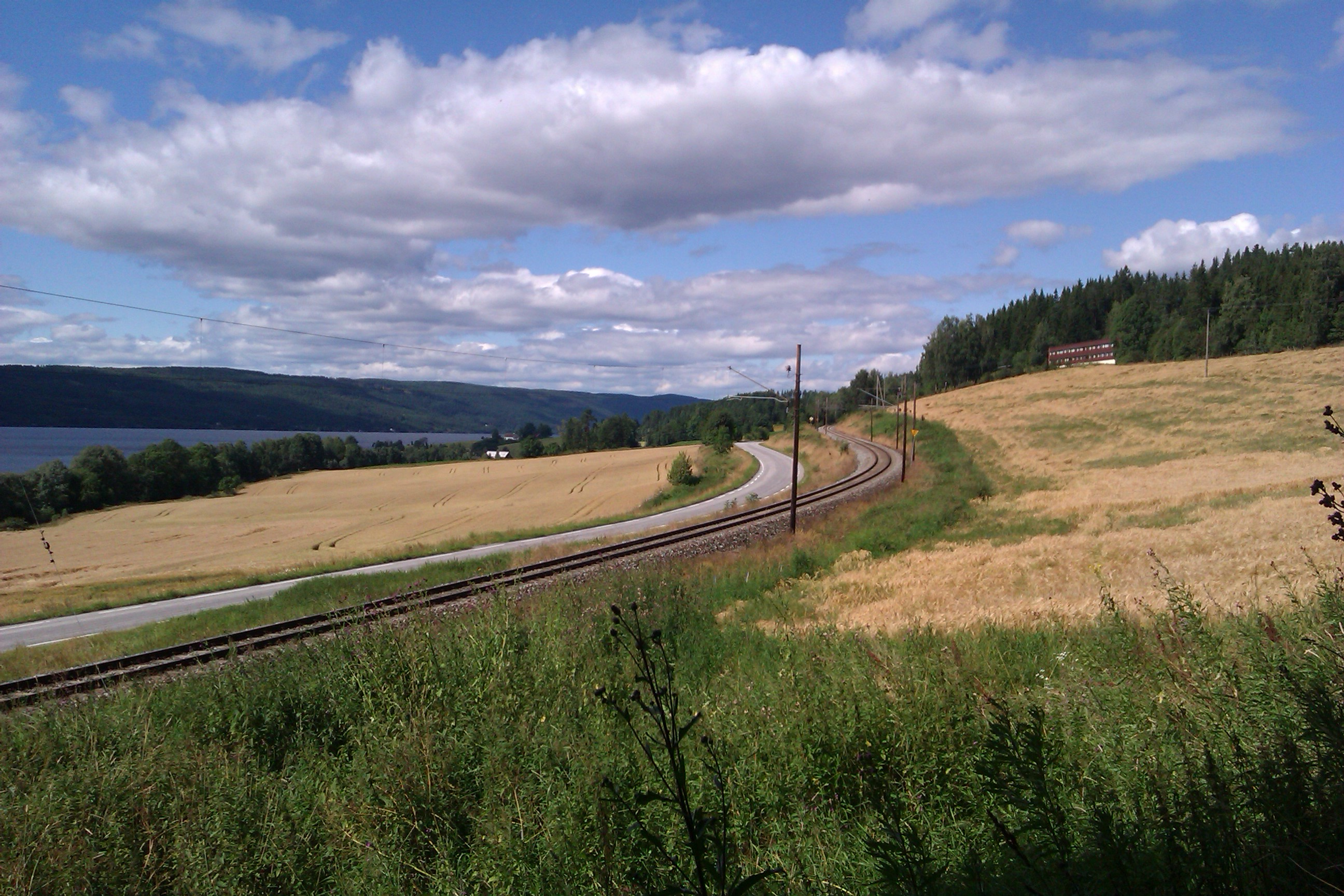 The Roa–Hønefoss Line east of Jevnaker as it passes by Randsfjorden